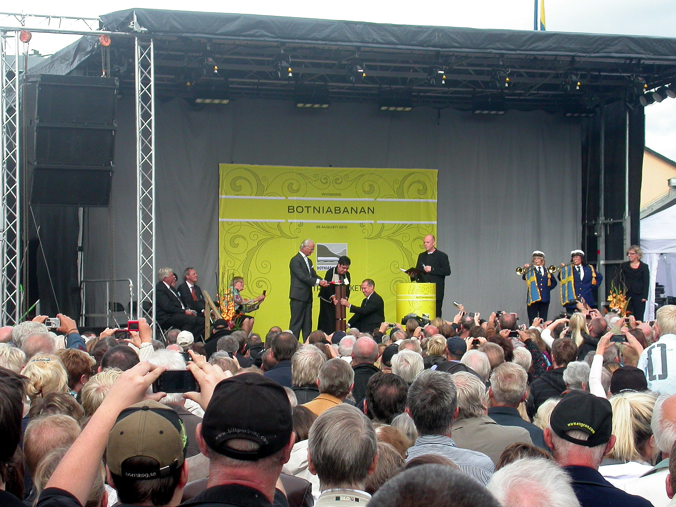 King Carl XVI Gustaf at the official opening of Bothnia Line in Kramfors, Sweden.